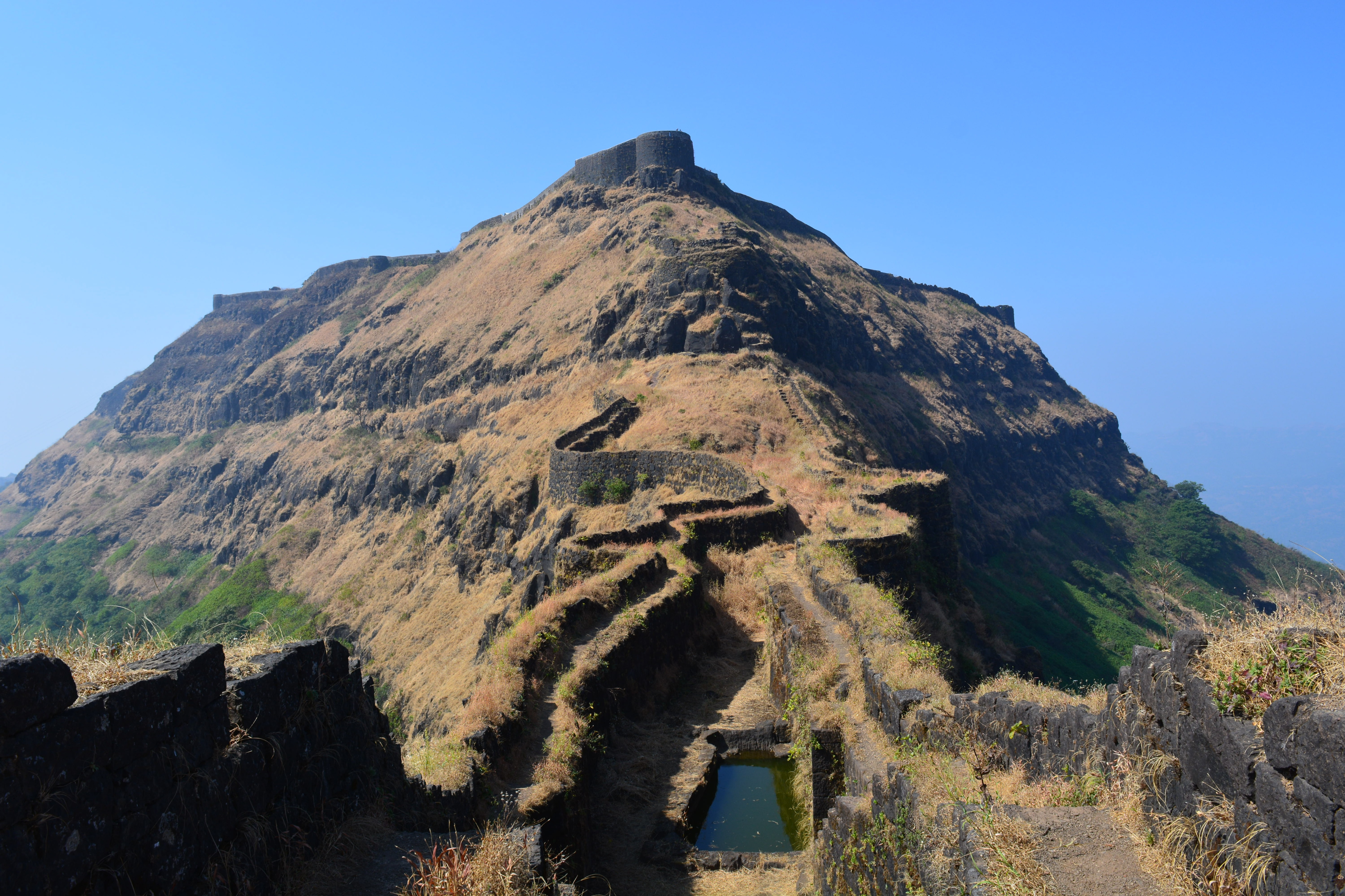 Torna fort or Prachandagad! It was the first fort captured by the Shivaji Maharaj.